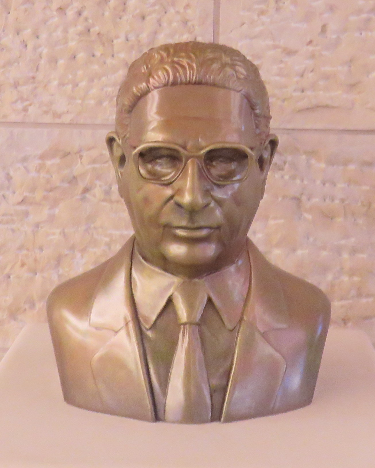 Ben Gurion International Airport